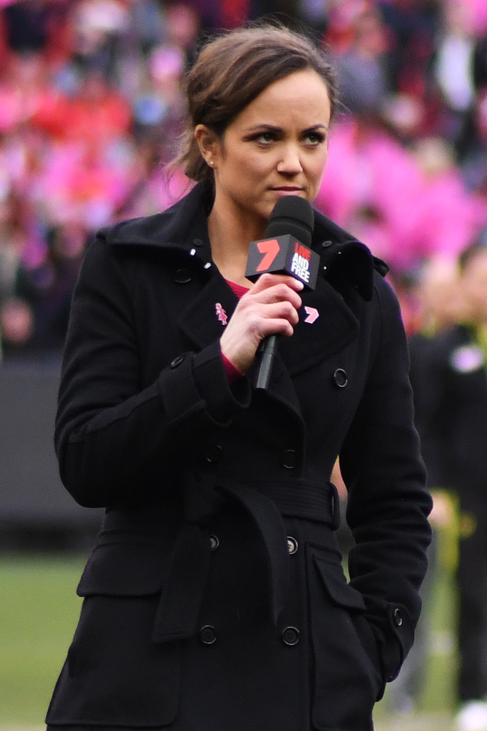 Daisy Pearce during the 2018 AFL round 21 match between Melbourne and Sydney at the Melbourne Cricket Ground on Sunday, 12 August 2018 in Melbourne, Victoria.